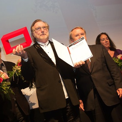 Pierre Gendron accepting Prize for 10 1/2